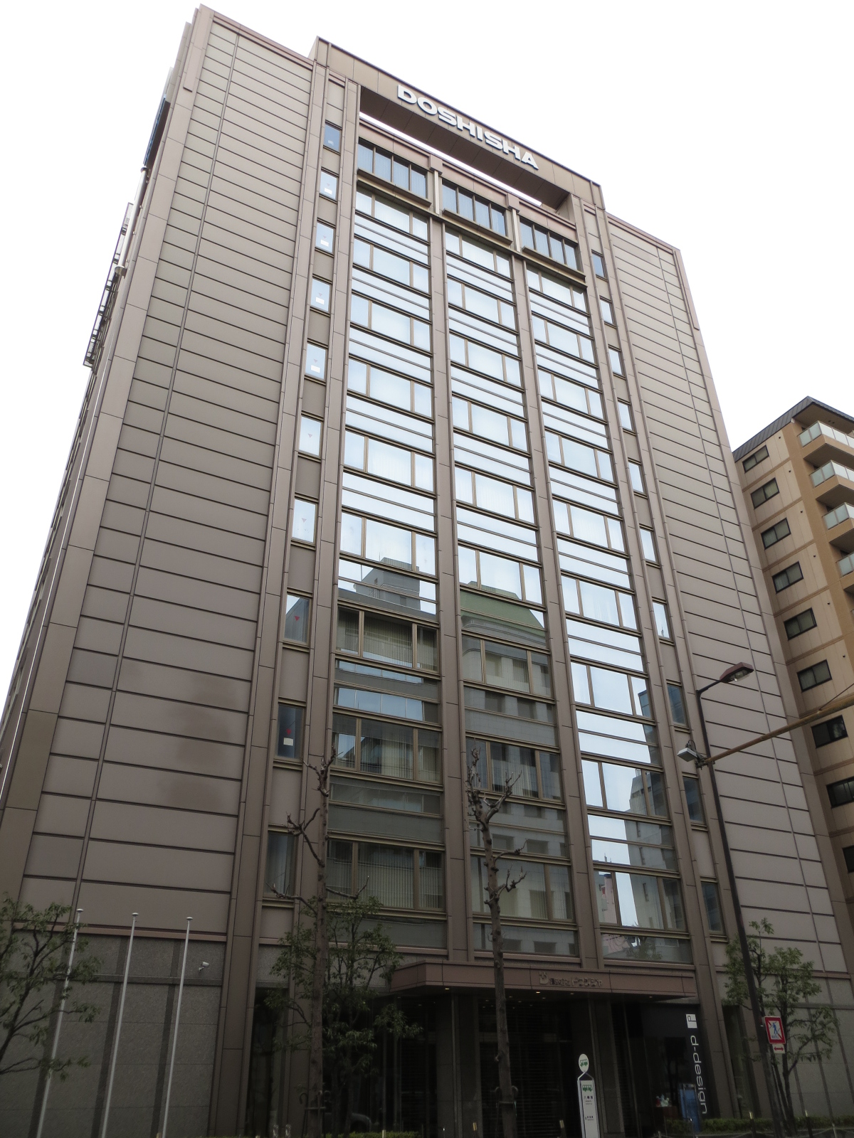 Headquarter from Doshisha Co., Ltd., Chūō-ku, Osaka.